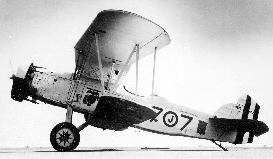 A Curtiss OC-2 "Falcon" observation aircraft of the United States Navy in 1929.